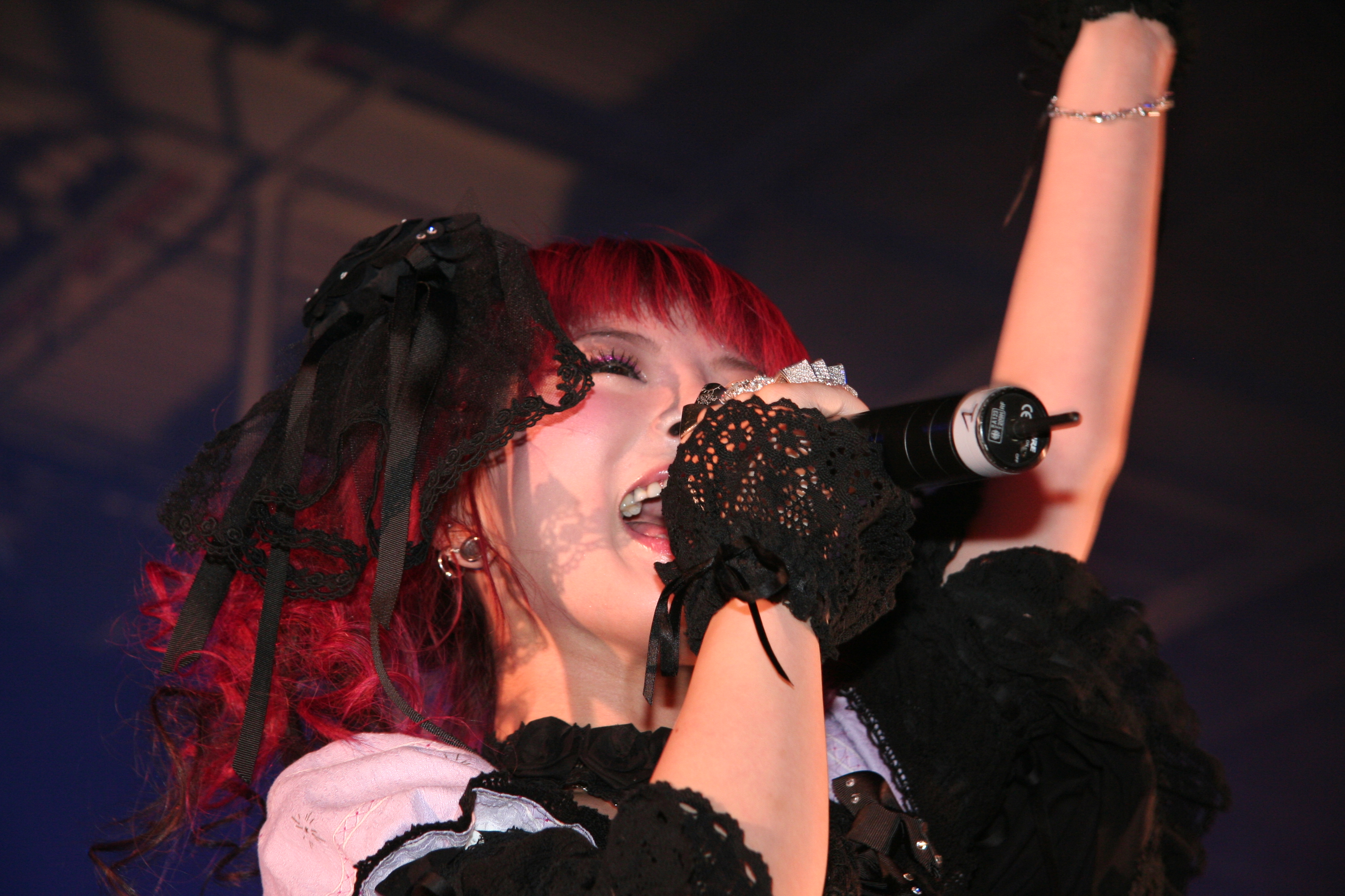 Nana Kitade live at Japan Expo 2007 (Paris, France).